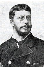 Henry of Bourbon-Parma (1851-1905)